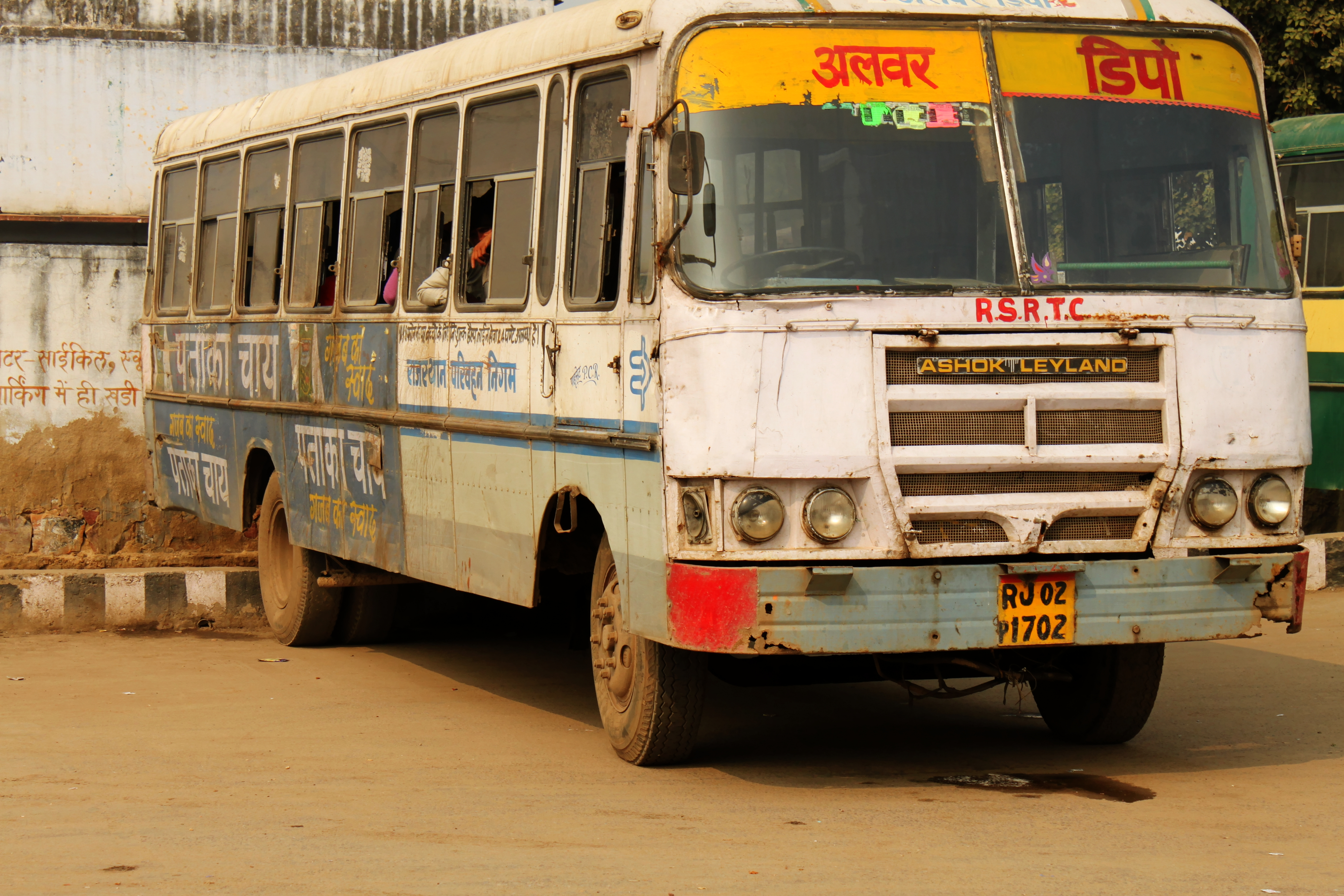 Enhanced version of file uploaded by user: BazaNews